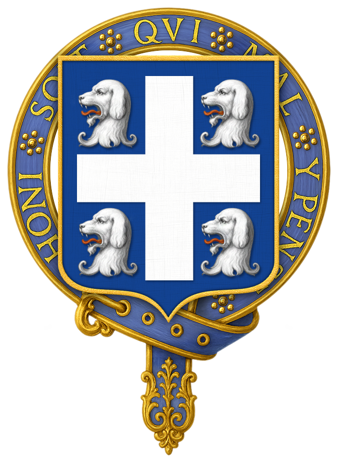 Coat of Arms of Field Marshal Sir Richard Hull, KG, GCB, DSO, DL